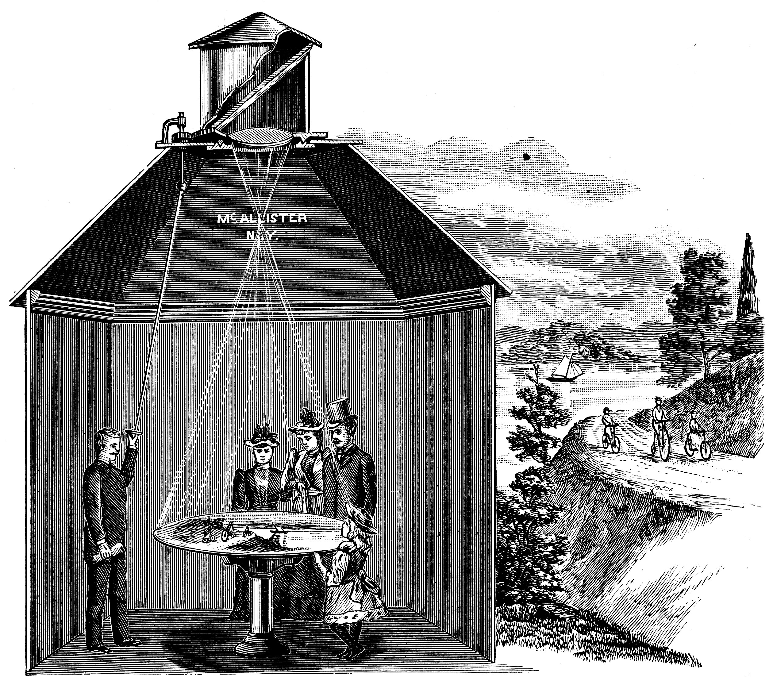 caption: "Fig. 89. Camera for Exhibiting Surrounding Landscapes. (From the Catalogue of McAllister). In a kind of cupola at the top is situated a plane mirror and beneath that a projection objective. The cupola rotates, thus enabling the operator to bring any desired scene upon the horizontal screen within the room. Such cameras were once common at fairs and in parks."